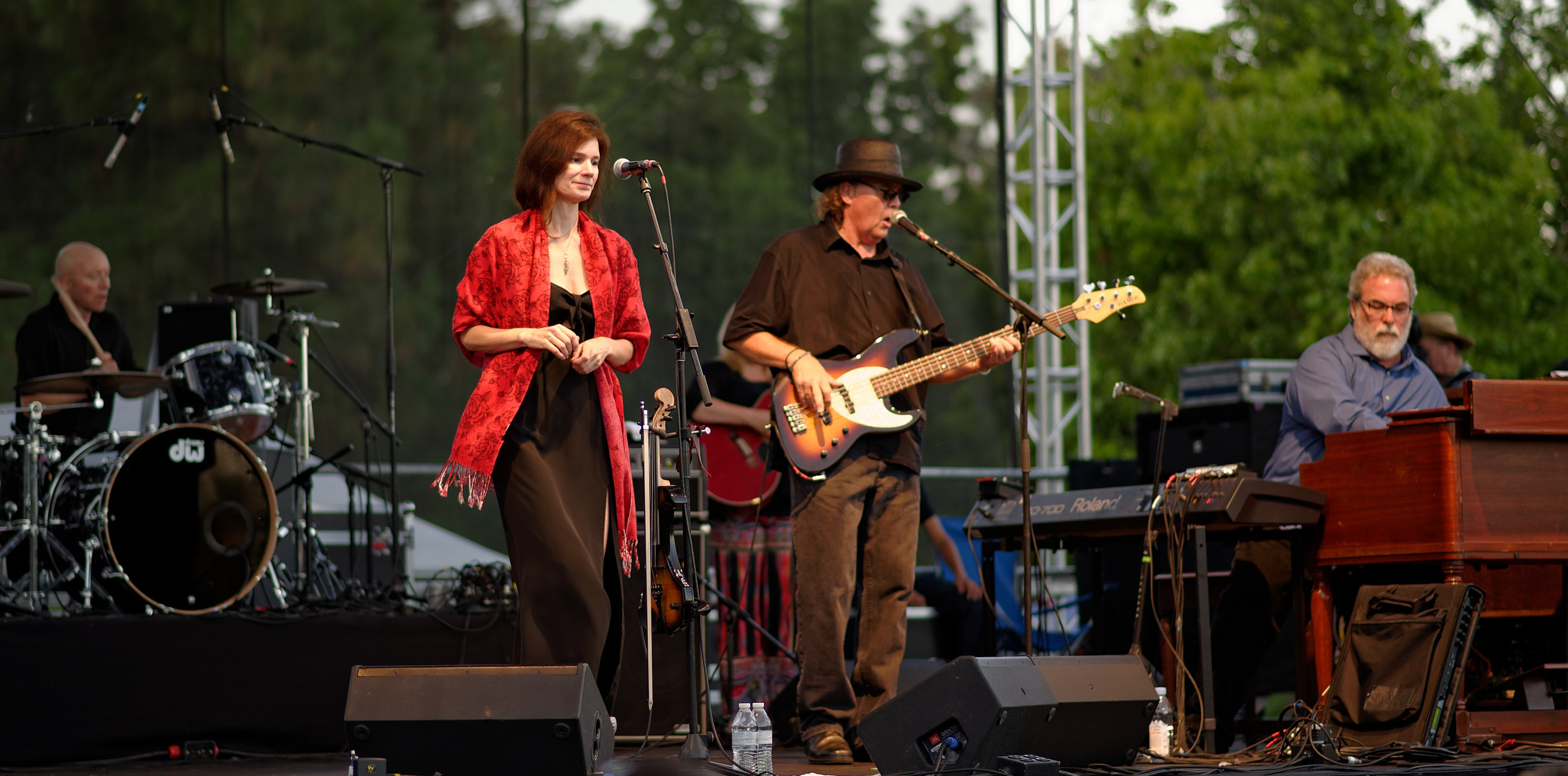 10,000 Maniacs at Pittsford Park in Lake Forest in 2015